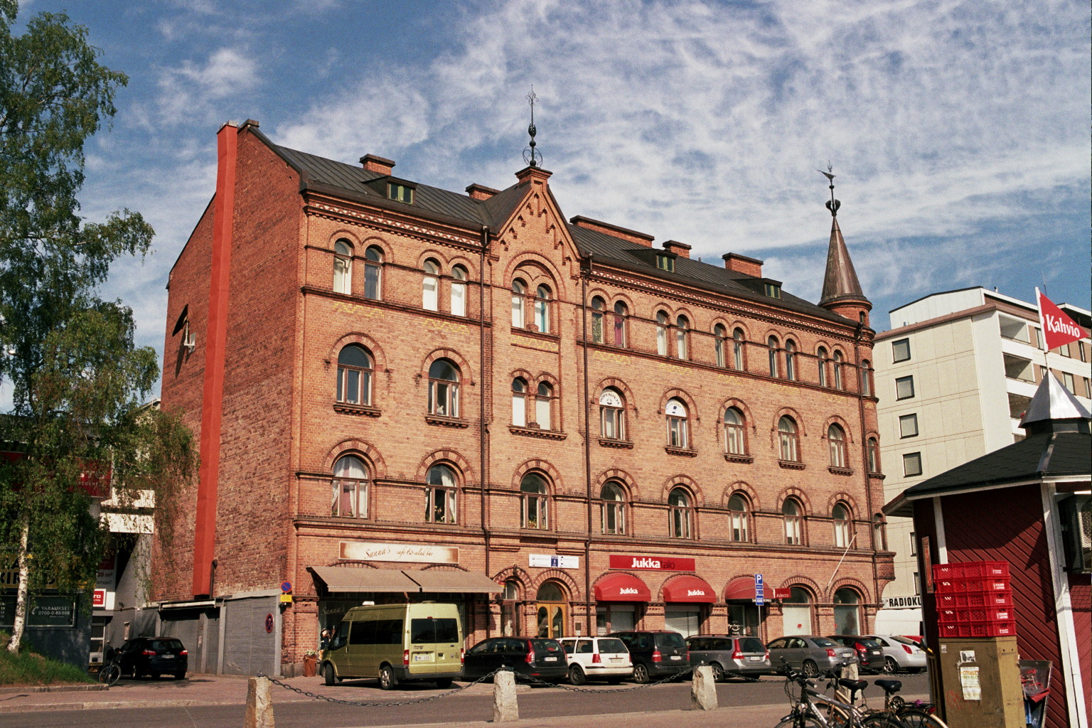 "Laukonkulma", an old apartment and office building near the Laukontori market square in central Tampere, Finland. Designed by architect Arthur af Hällström, the building was completed in 1901.